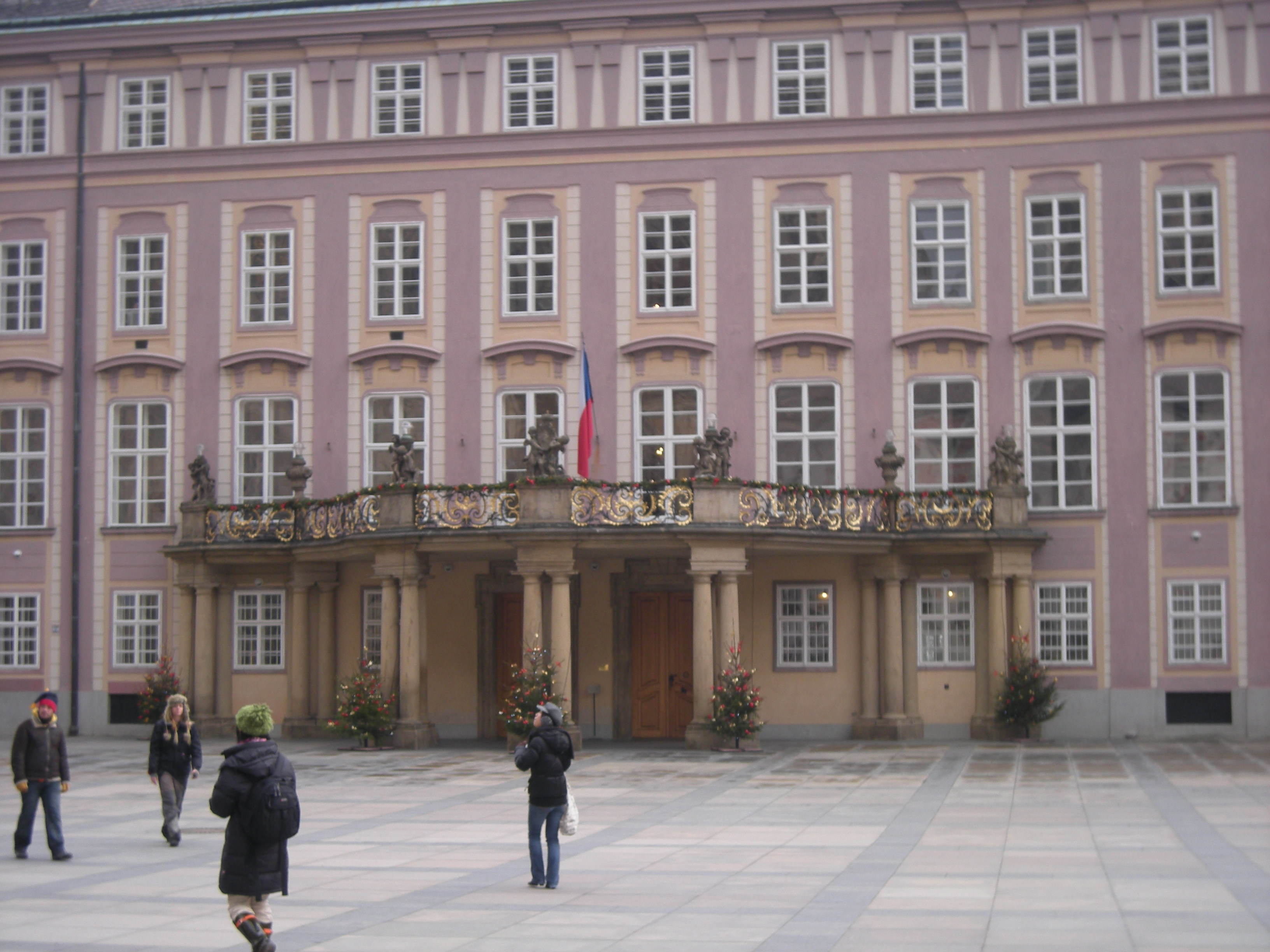 Presidential balcony at Prague Castle, Czech republic.